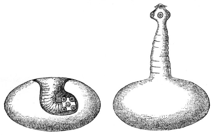 Bladder worm (Taenia solium), enlarged; size: 2.3 x 1.5 in²